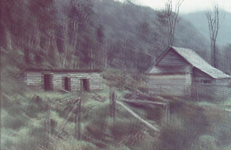 Abandoned houses, empty landscapes, near Puerto Aysen